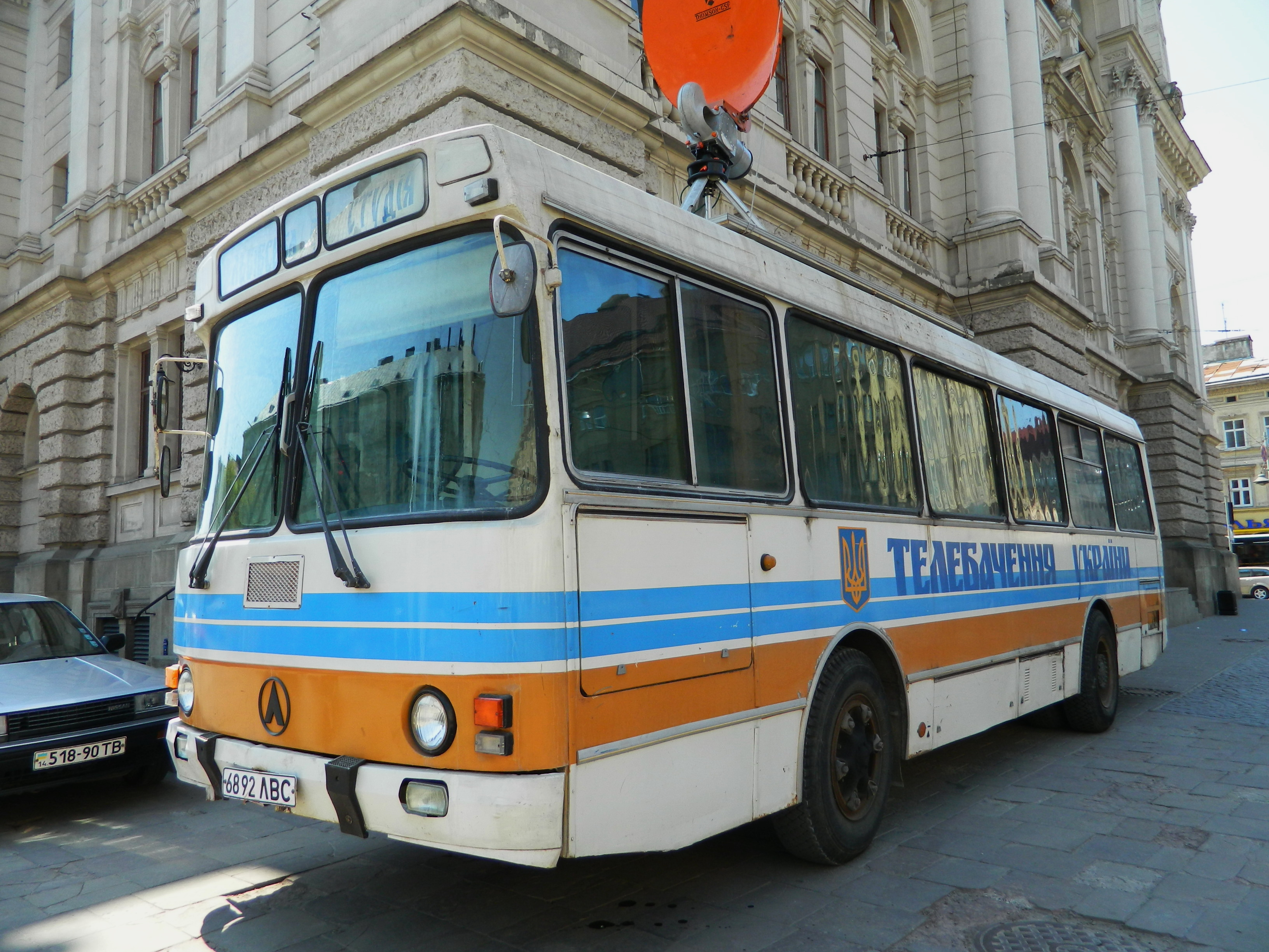 LAZ 42021 bus in Lviv. Works as a TV transmitting station. Built approximately 1991.